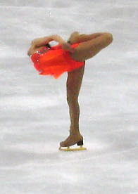 Yukari Nakano donut spin at the Russia Cup 2007 Ladies Free Skate competition.